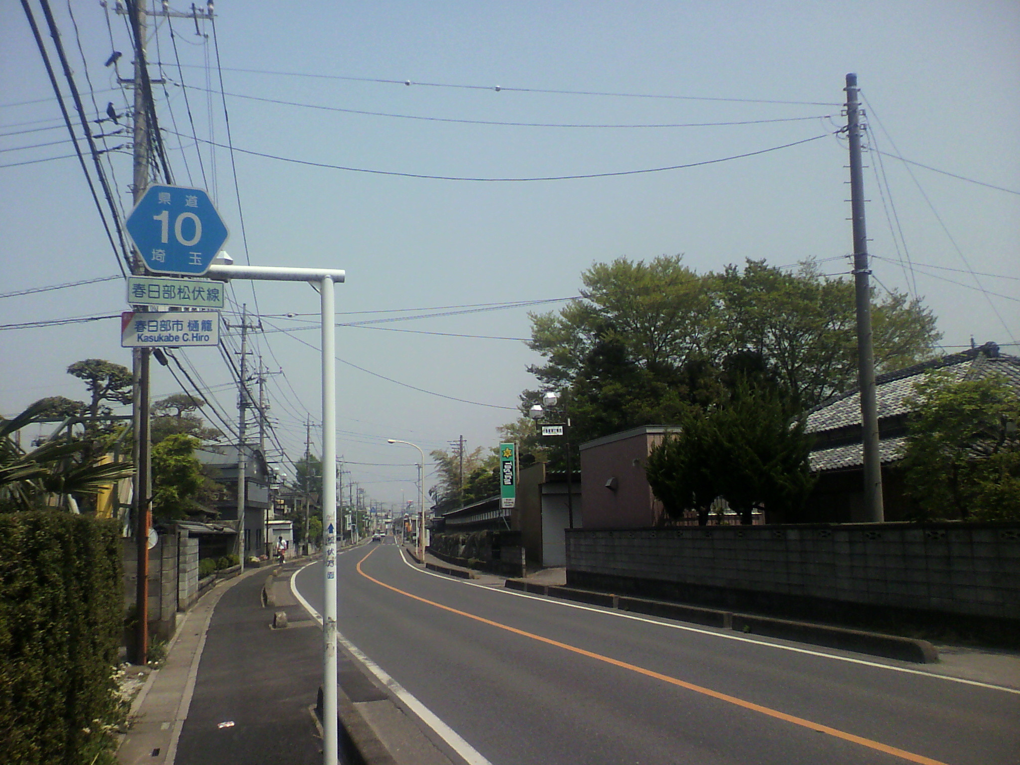 The Saitama Prefectural Road Route 10 in Kasukabe City